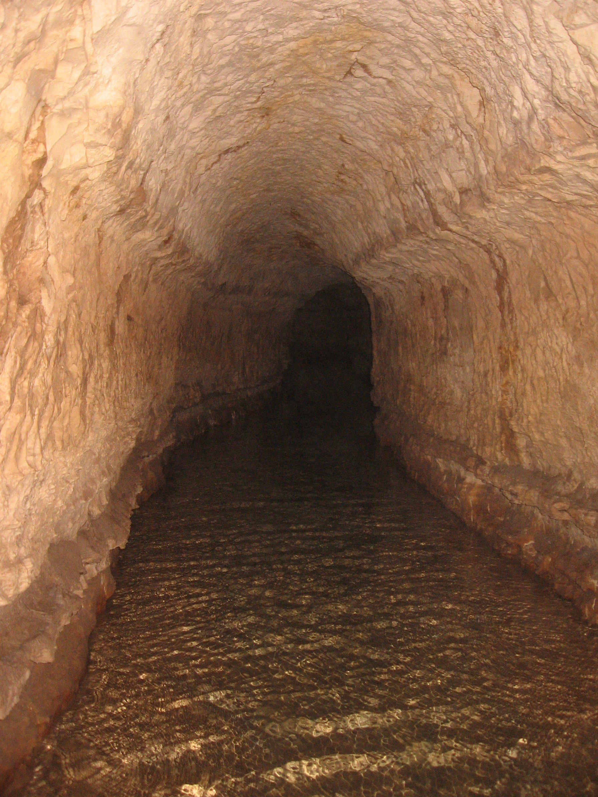 Flooded tunnel section of the Qanat Firaun.